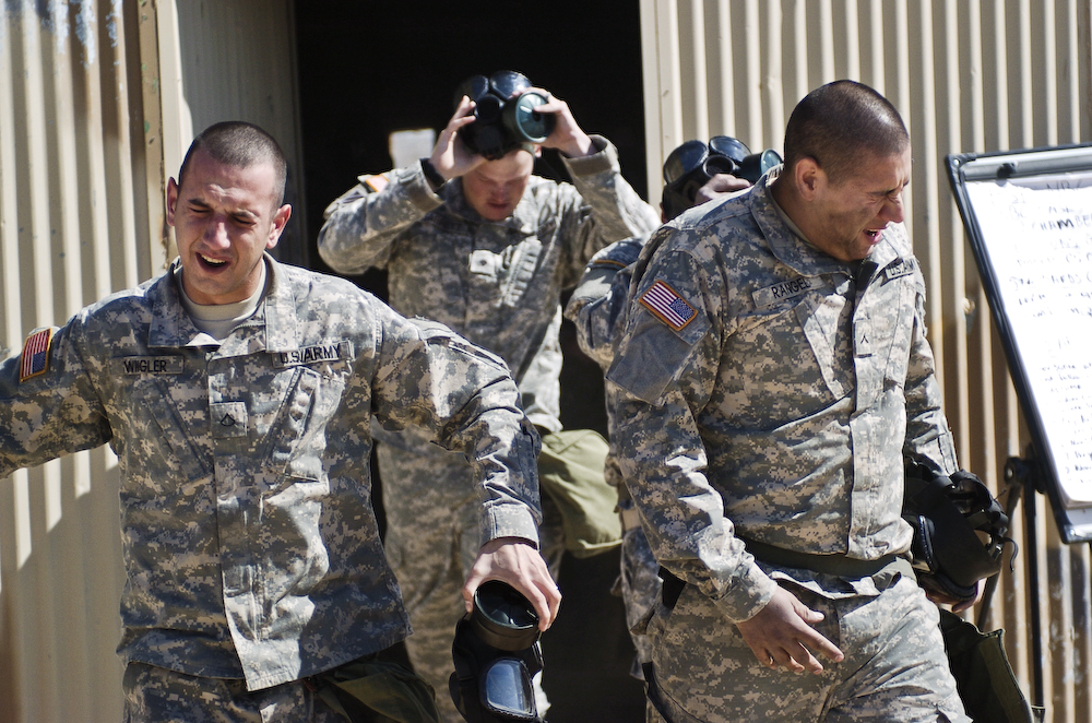 FORT IRWIN, Calif. - Soldiers from Delta Company, 1st Squadron, 11th Armored Cavalry Regiment exit the CS gas chamber during a refresher training exercise here Oct. 6, 2009. (Photo by Sgt. Christopher Klutts, 11th ACR Public Affairs)